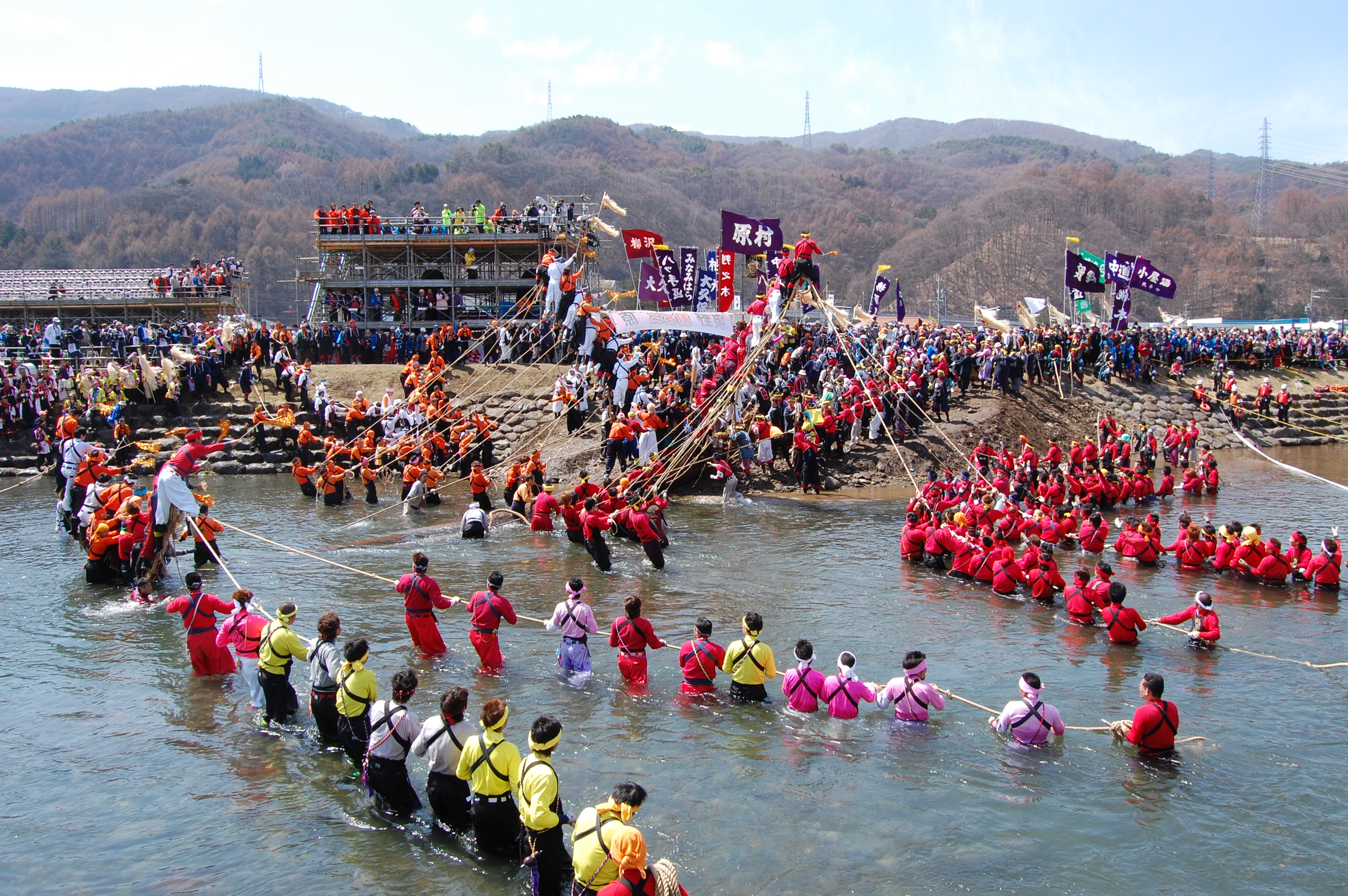 Onbasira festival